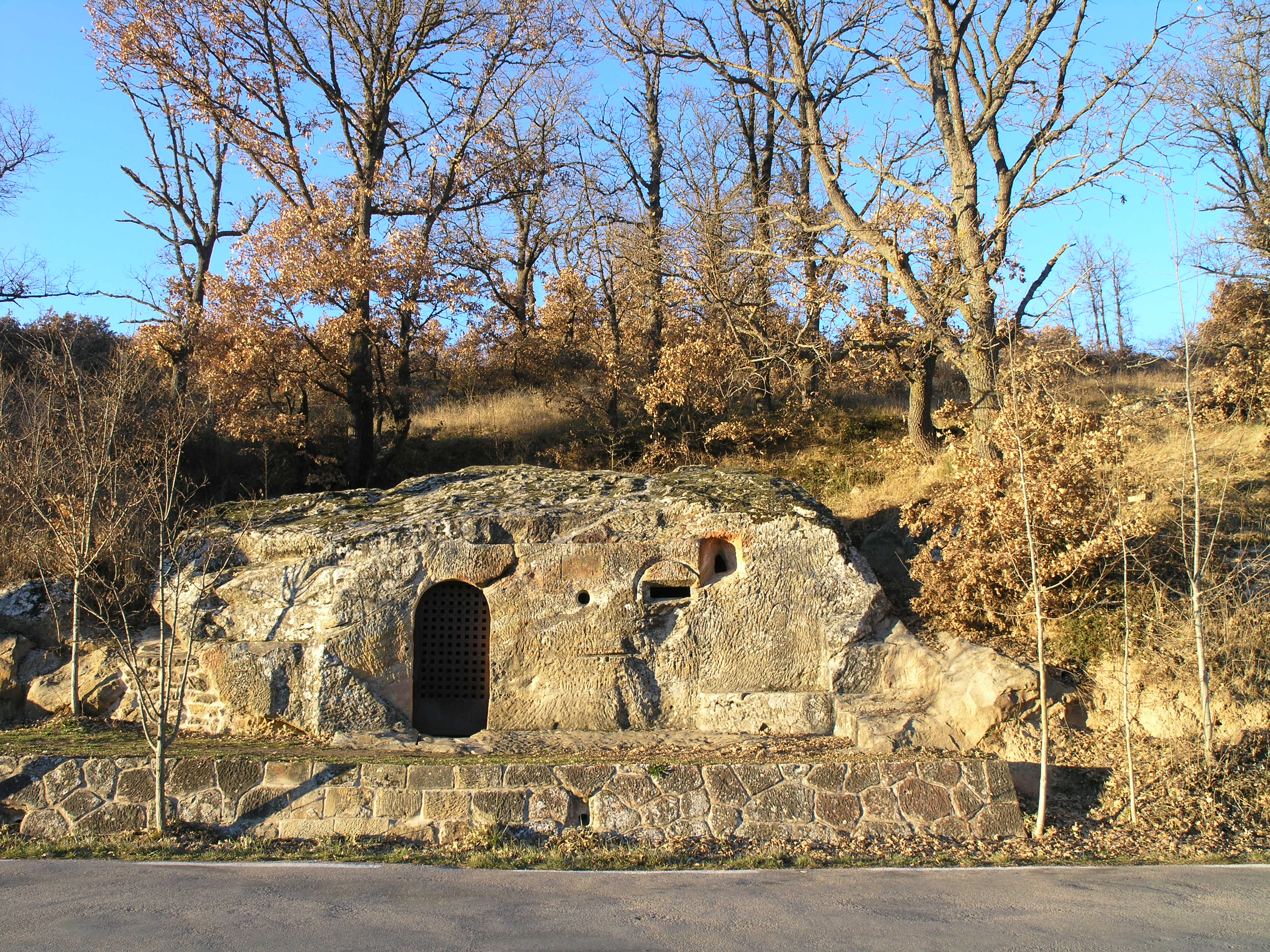 Cave church dedicated to Our Lady of Mount Carmel, in Cadalso (Valderredible, Spain). 7th to 9th century